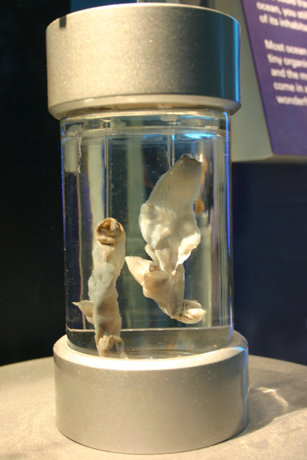 Lamarck's Carinaria (Carinaria lamarckii) at Smithonian Natural History Museum